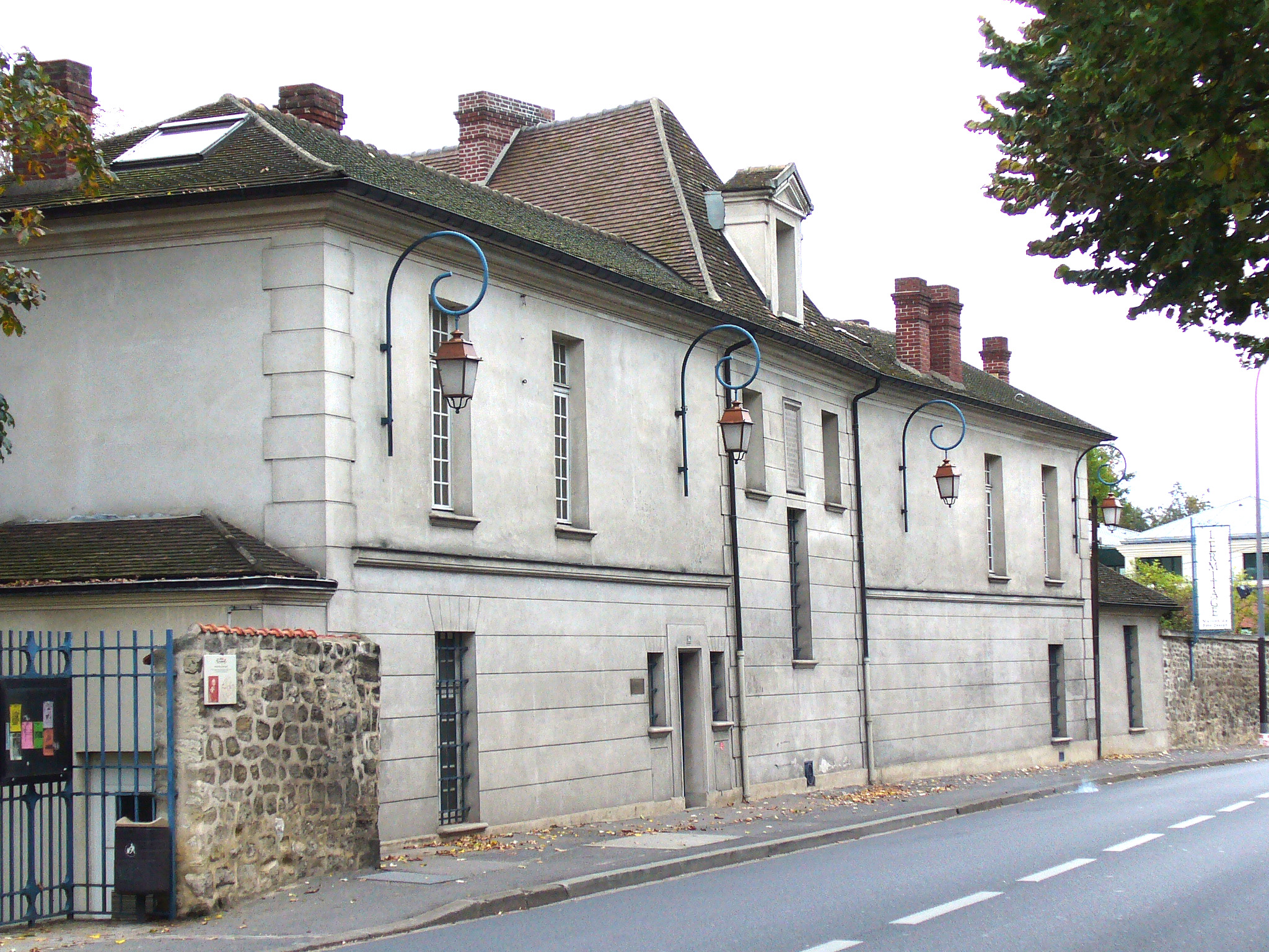 House of Père Joseph, in Rueil-Malmaison (Hauts de Seine).